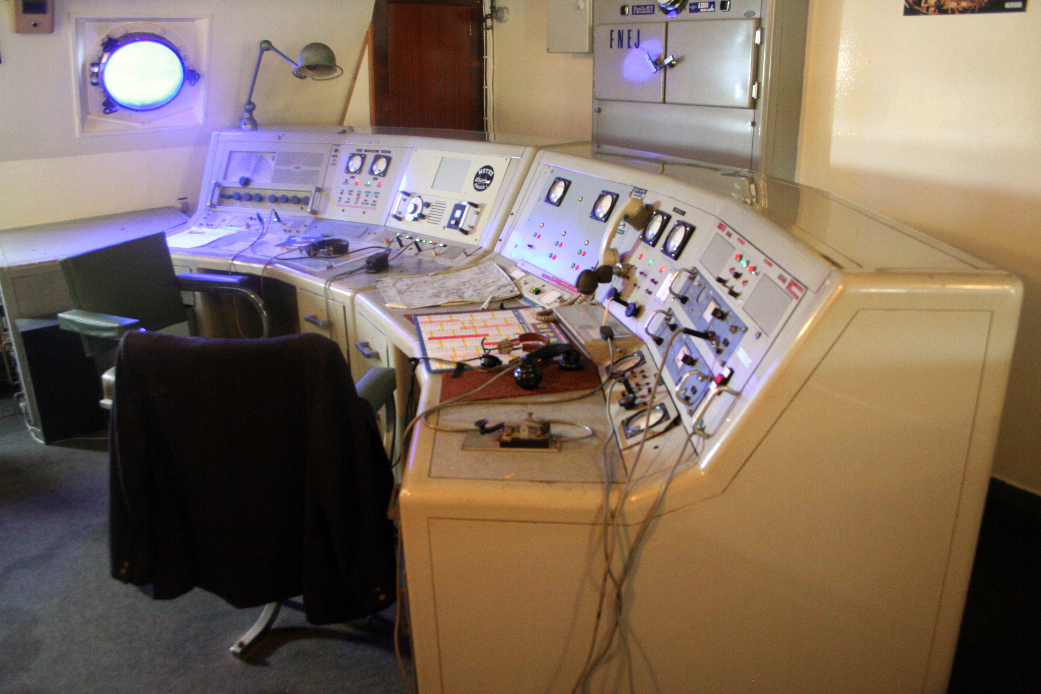 Control room for weather instruments on the weather ship France I.